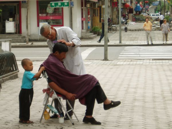 Street haircut in Harbin, China.